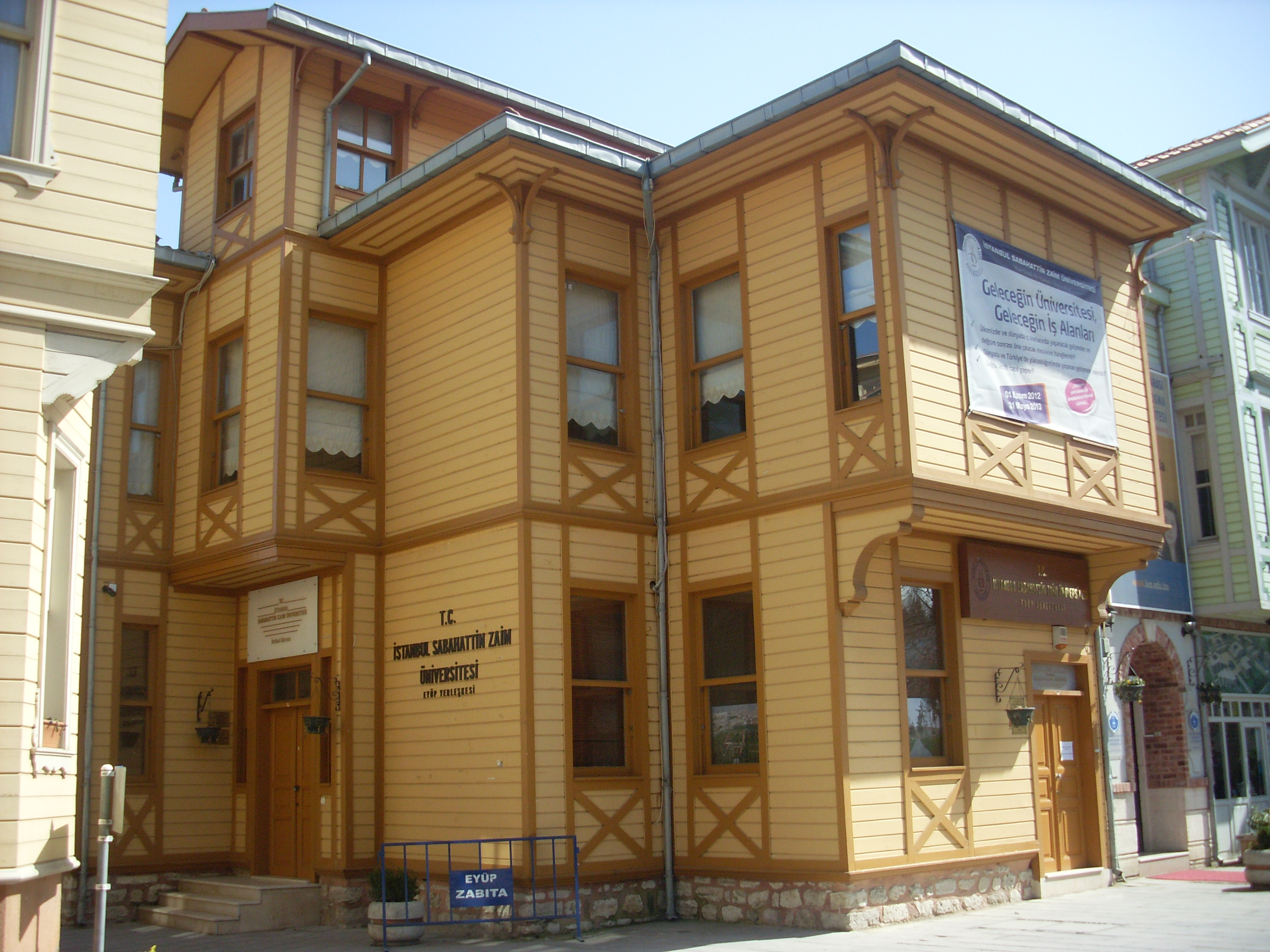 Istanbul Sabahattin Zaim University - Eyüp Campus- Mart 2013